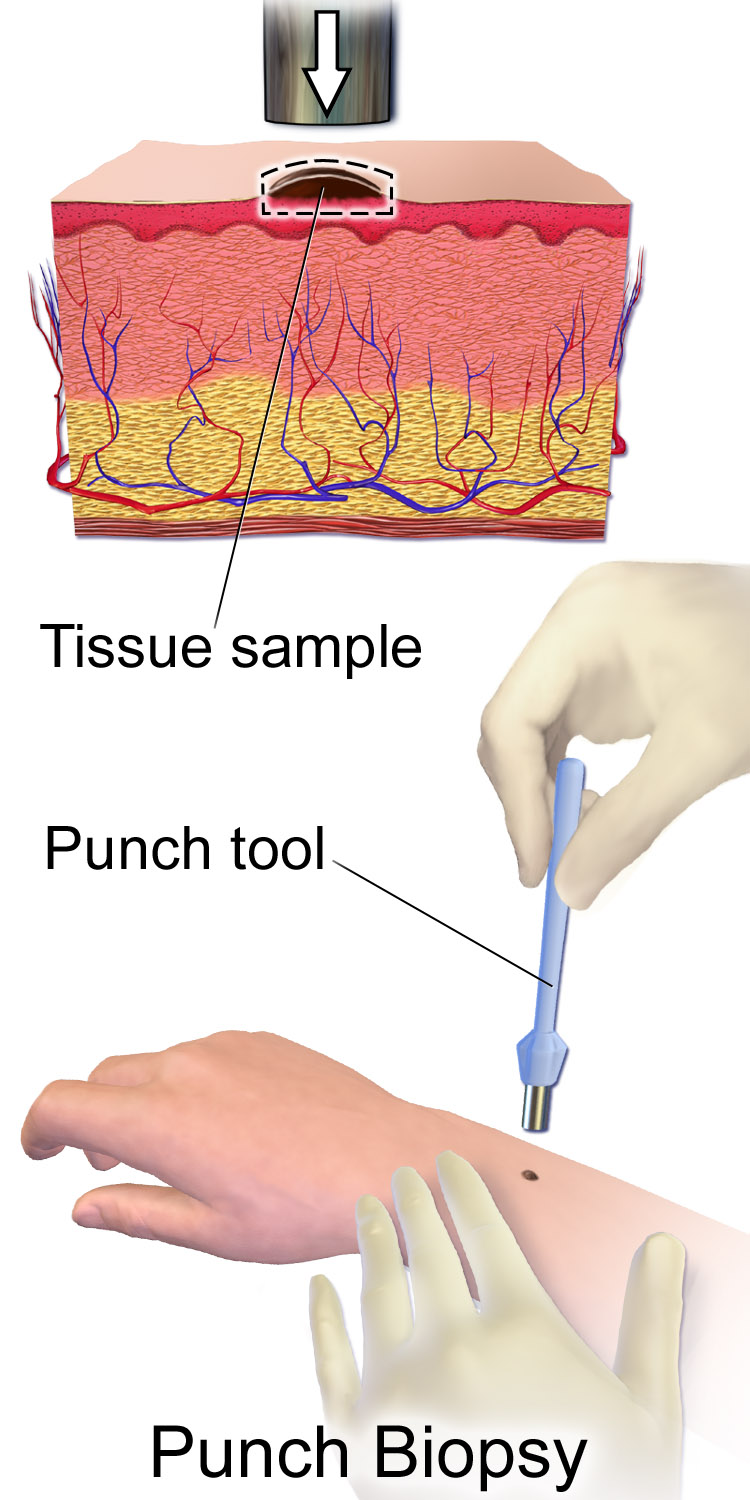 An illustration depicting the skin punch biopsy.